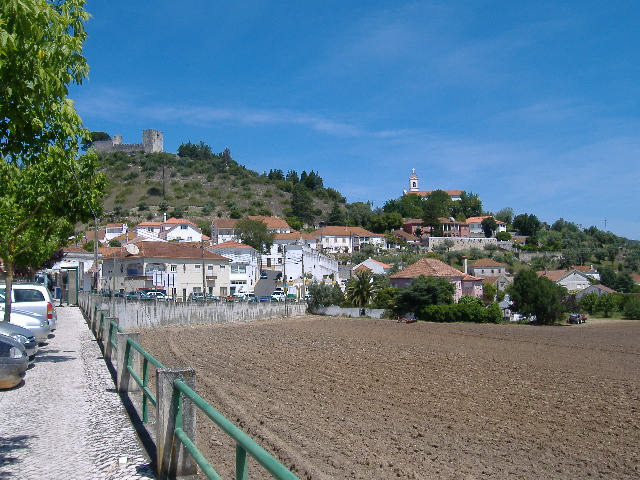 Overview of Alcanede